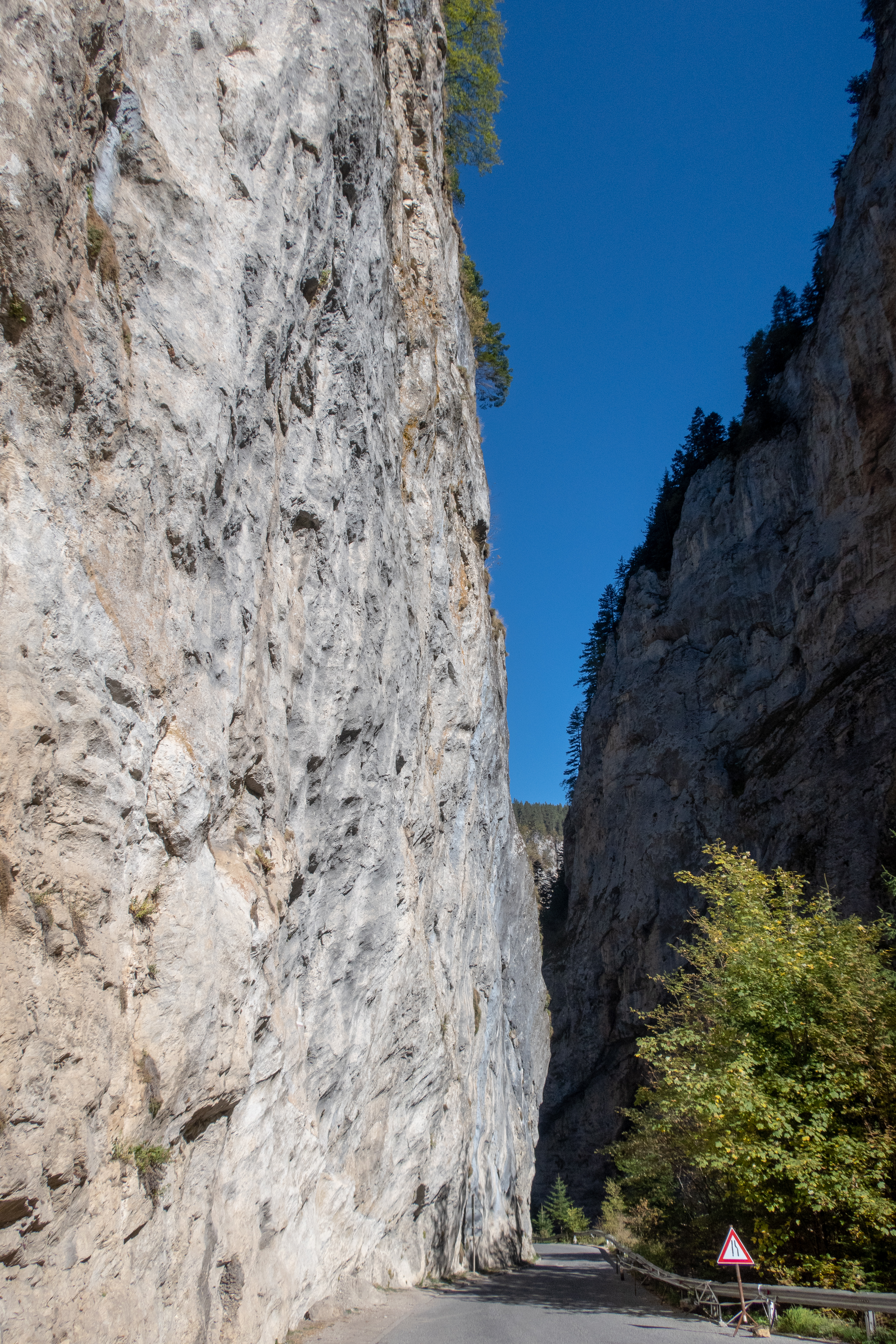 Trigrad Gorge